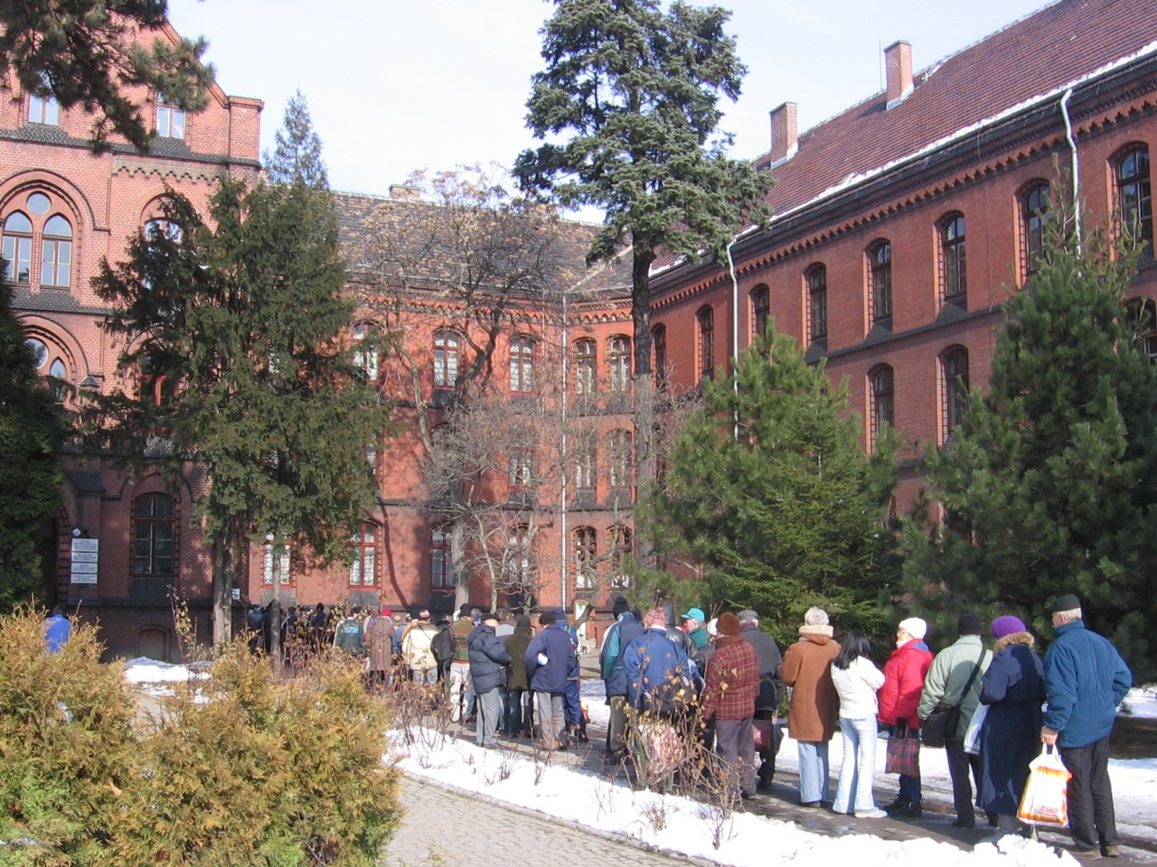 Wrocław-Karłowice, Poland philantropy - free meals distribution by Fanciscans, near St.Anthony church